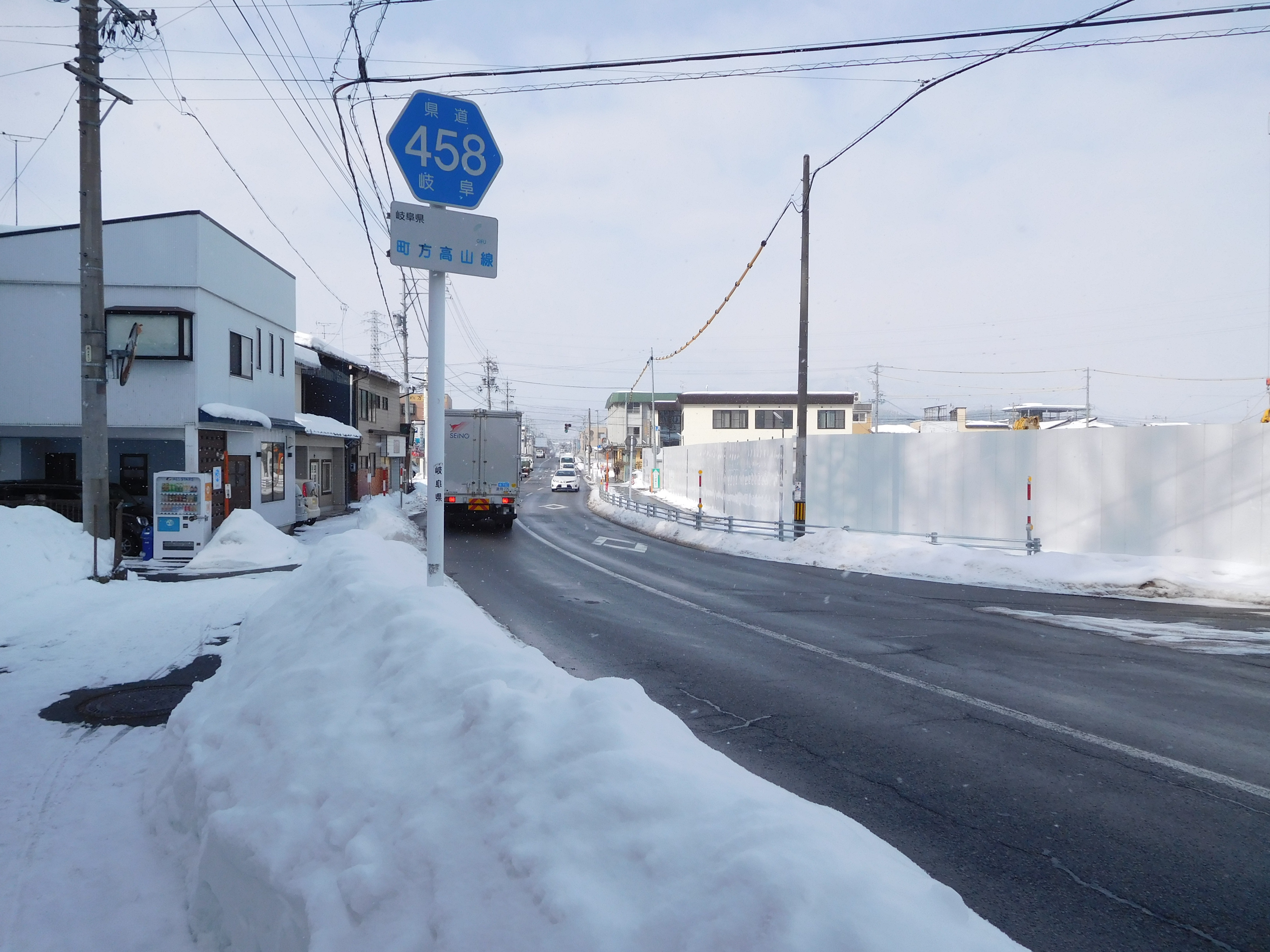 This is a landscape of Gifu prefectural road No.458 Machikata-Takayama line in Takayama, Gifu, Japan.